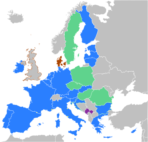 Eurozone map Eurozone (19) EU states obliged to join the Eurozone (7) EU state with an opt-out on Eurozone participation (2) Areas outside the EU using the euro with an agreement (4) Areas outside the EU using the euro without an agreement (2)